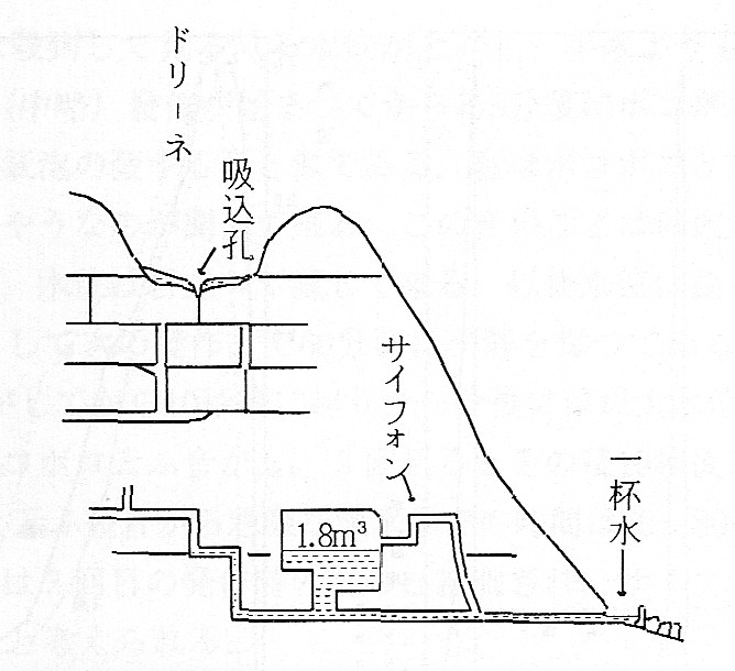 Ebb and flow structure of Ippaimizu, Hirosima Prefecture, Japan